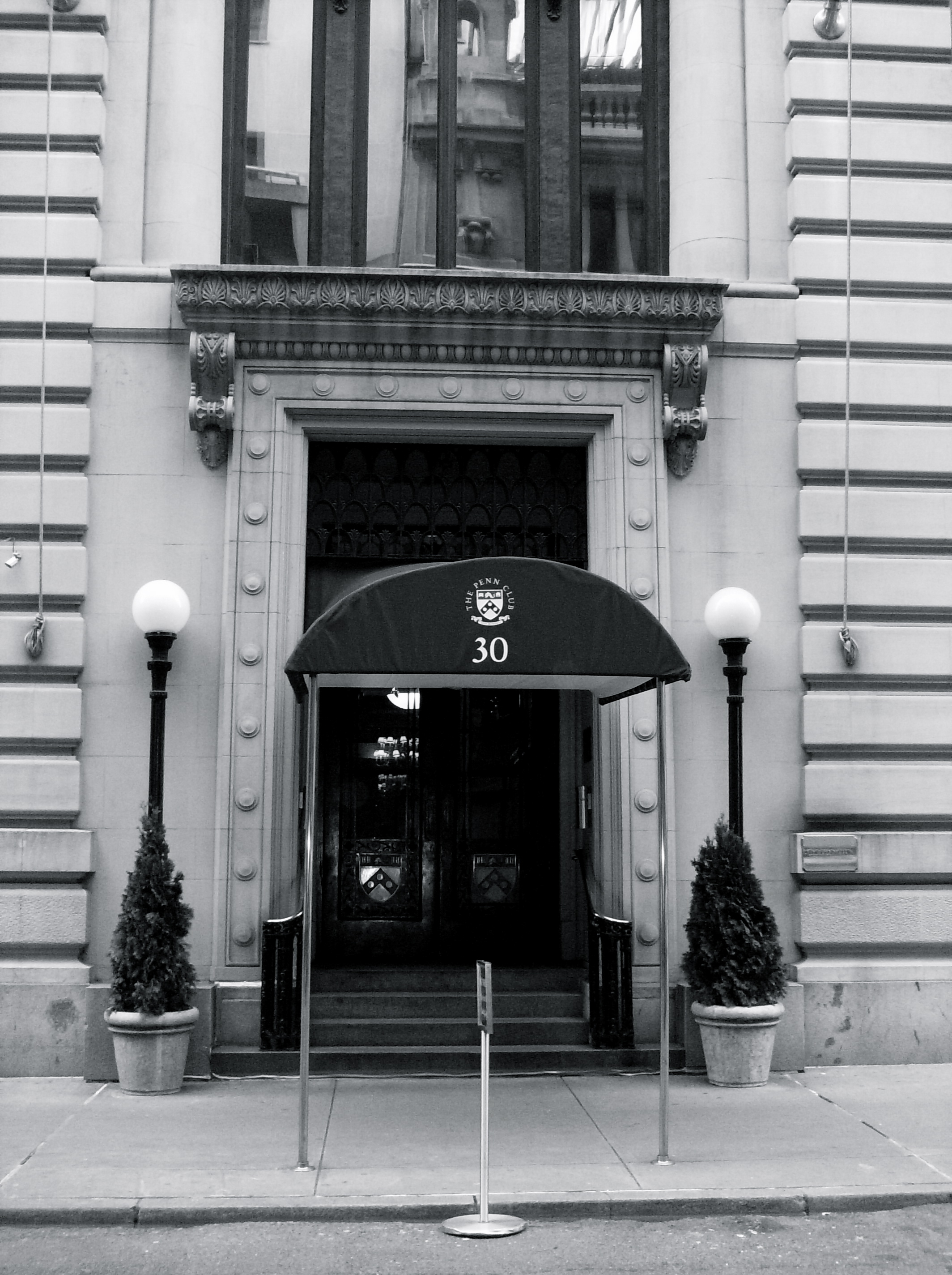 The front entrance of The Penn Club of New York